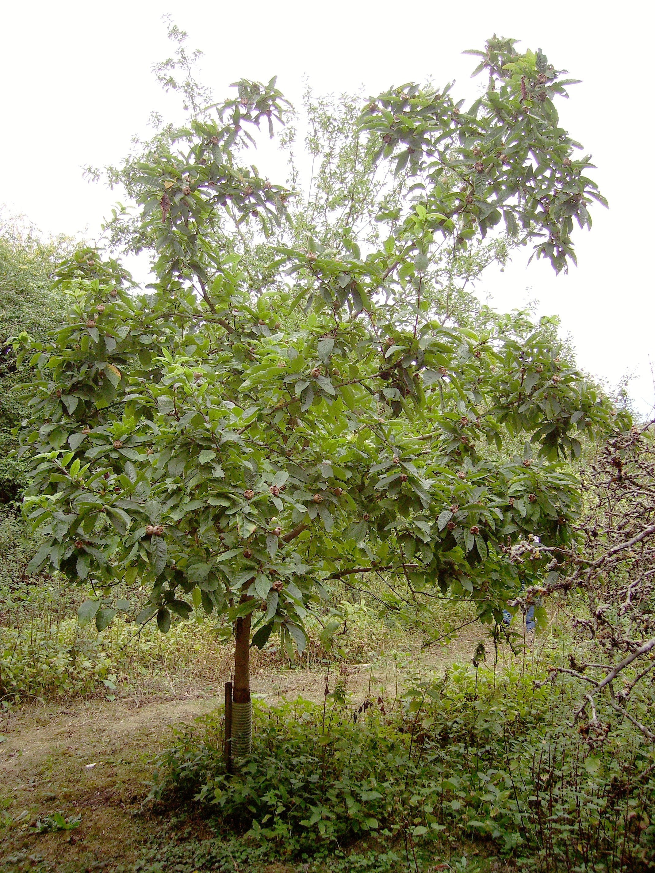 A medlar tree in one of the orchards on the top of Mowsbury Hill.